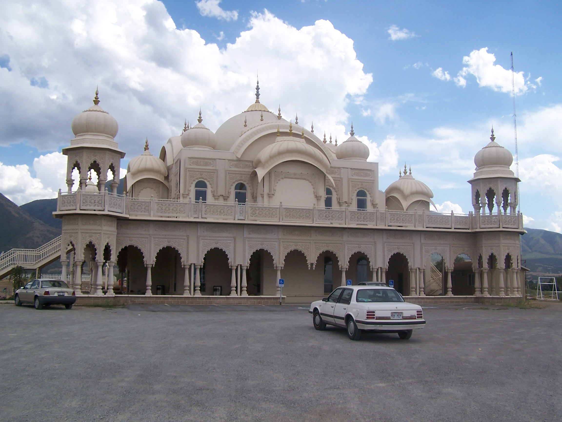 Photograph of Sri Sri Radha Krishna Temple (Spanish Fork)